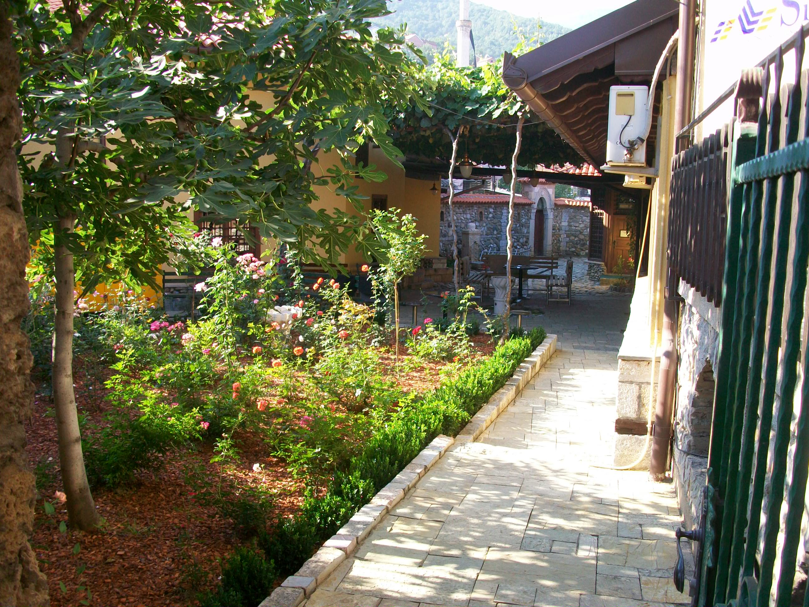 Pictures from Prizren Kosovo